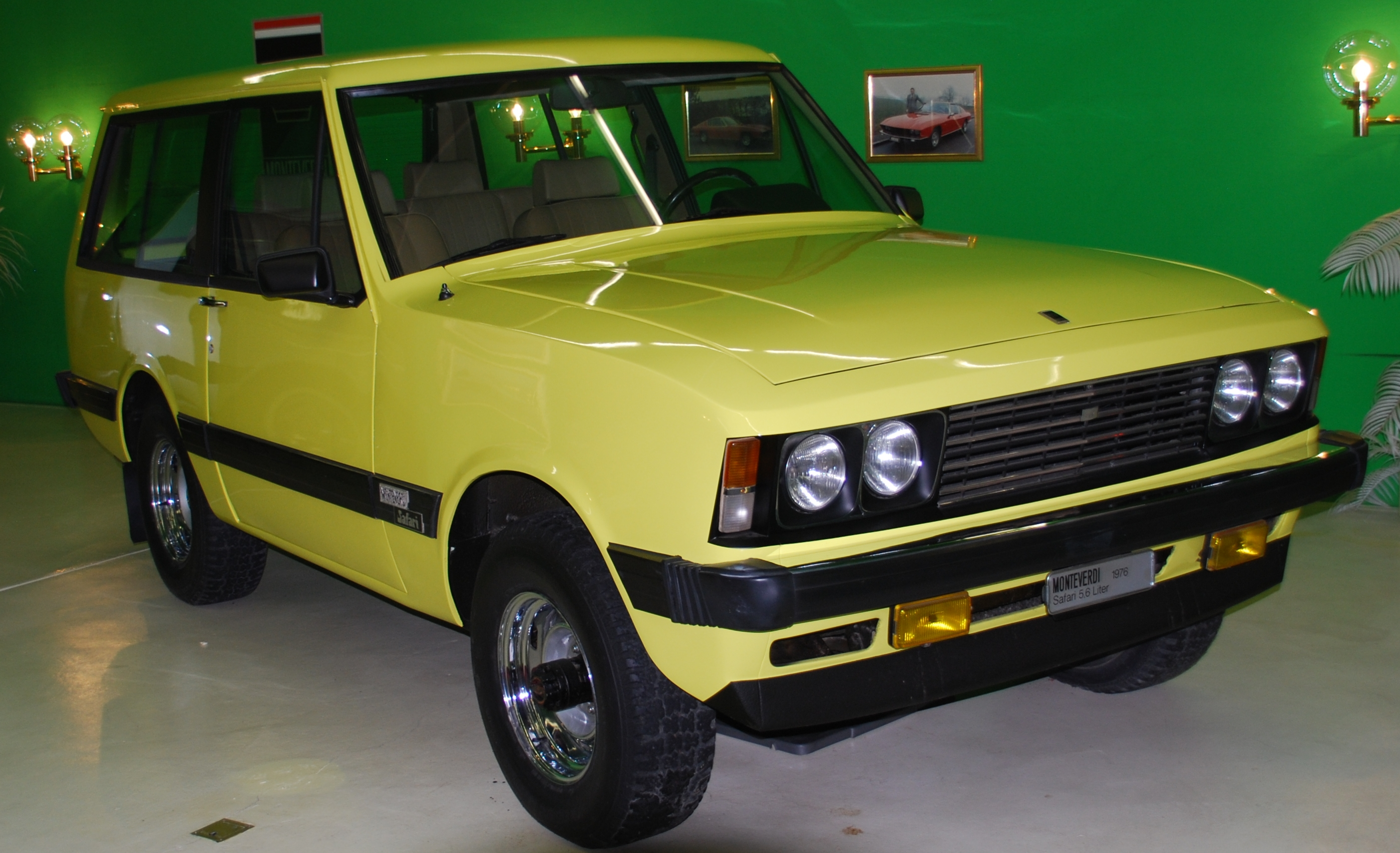 Monteverdi Safari